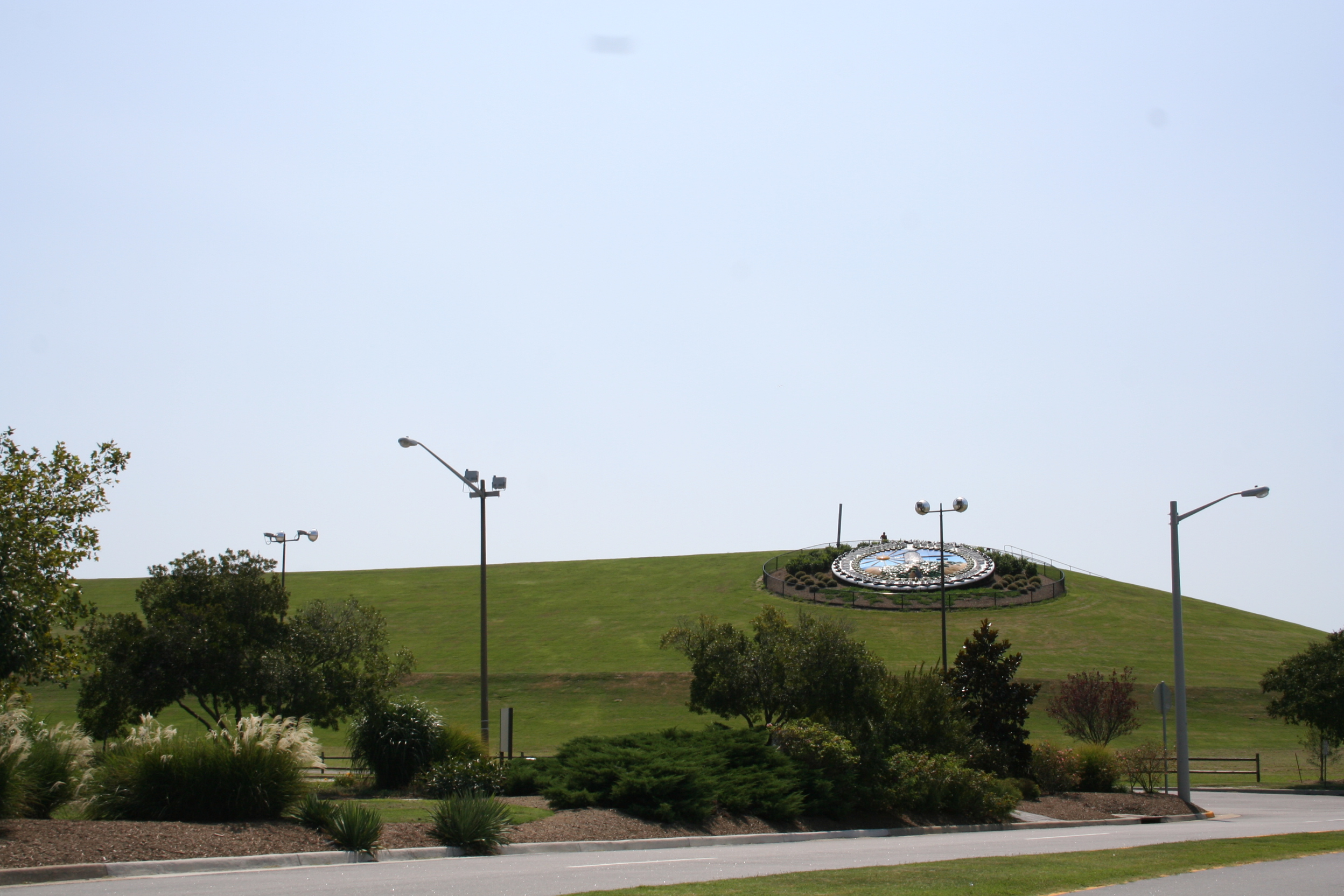 Photograph of the front of Mount Trashmore Park in Virginia Beach, Virginia